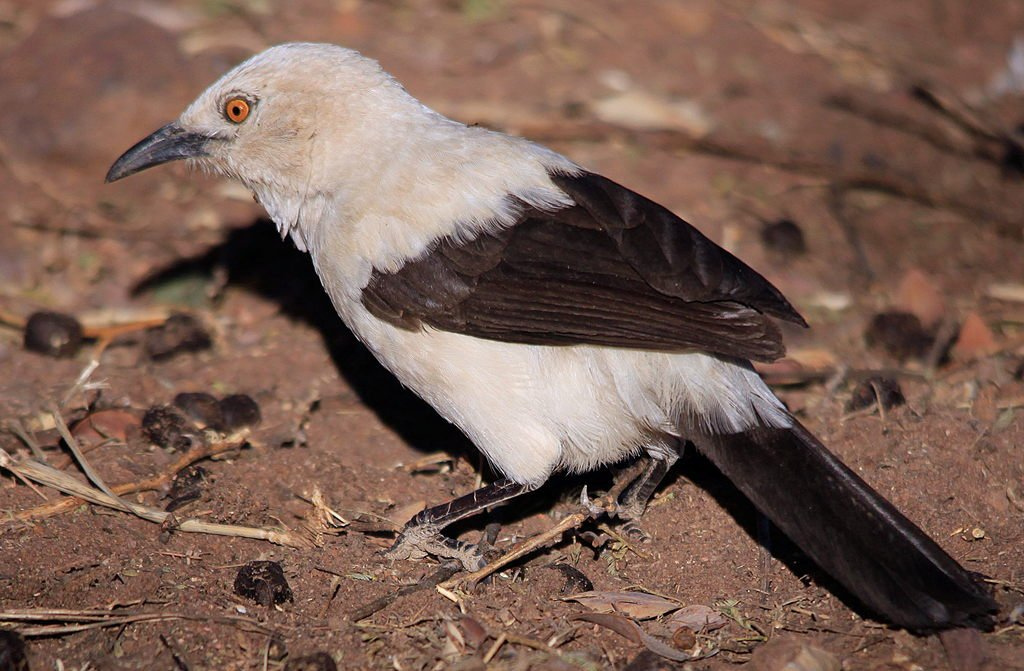 Southern pied babbler in Marakele National Park, South Africa